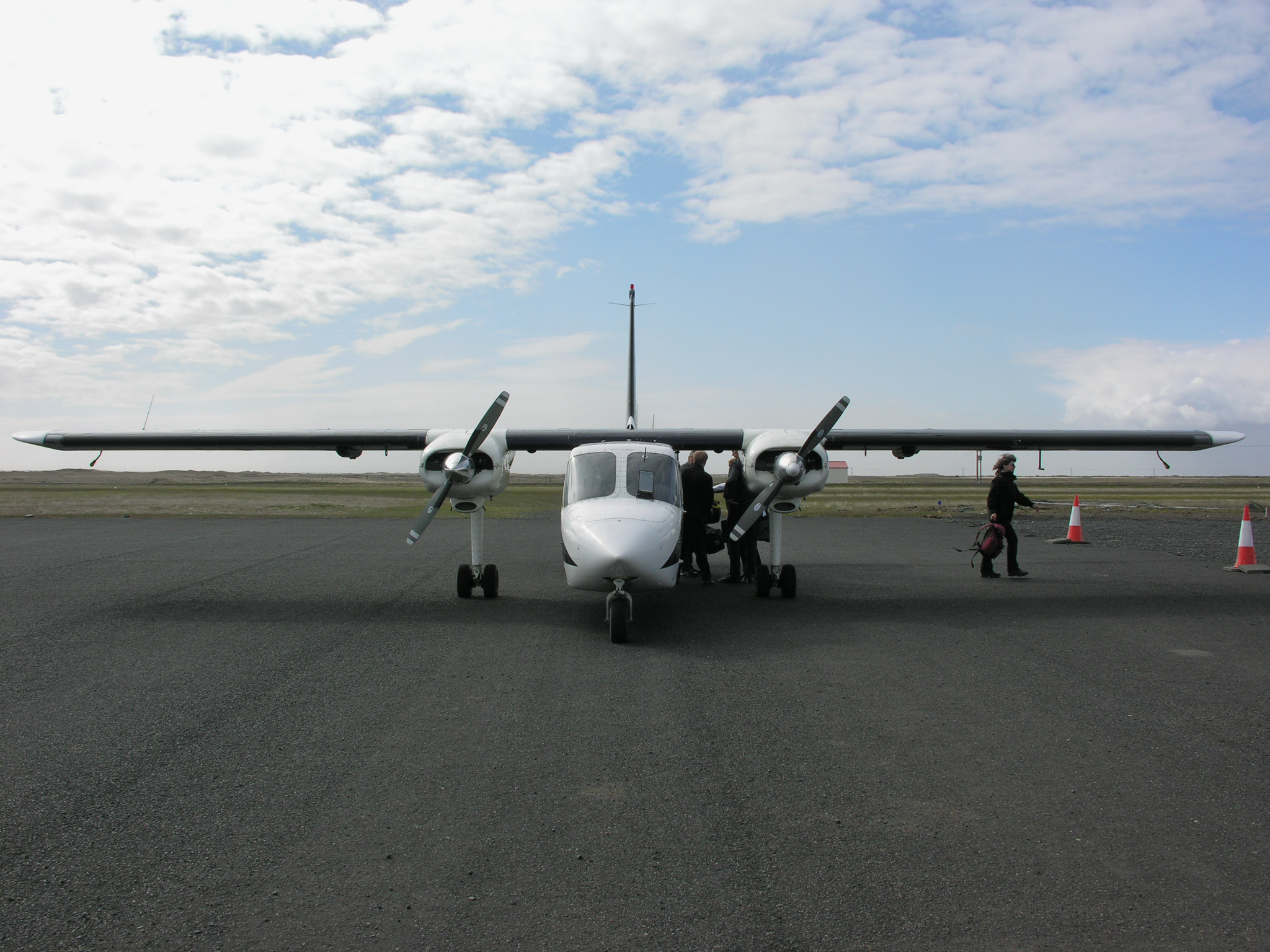 Iceland, TF-VEJ of Flugfelag Vestmannæyia at Bakki Airfield